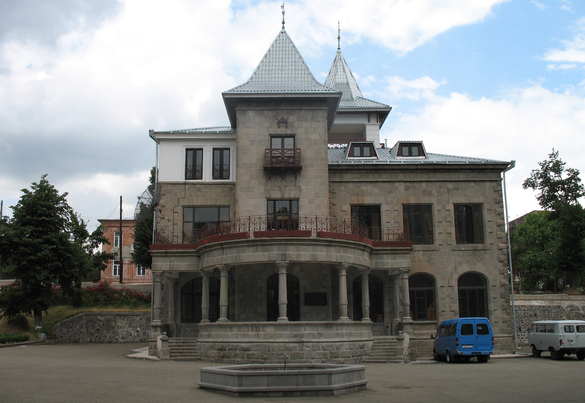 Primacy of the Diocese of Gougark of the Armenian Apostolic Church